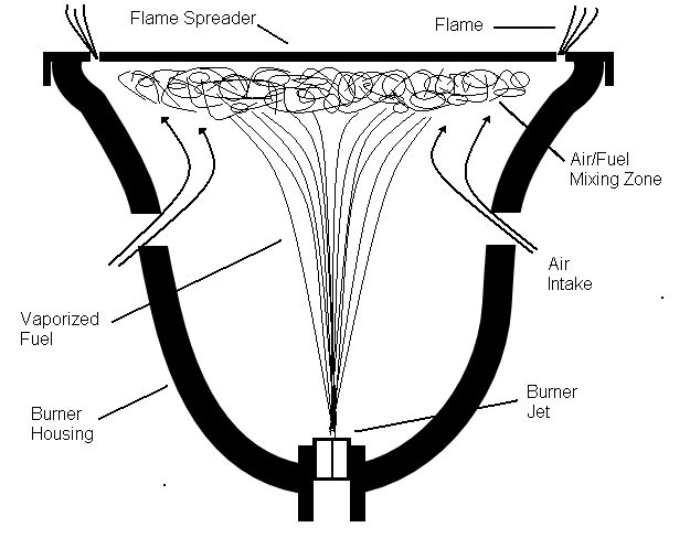 Illustrated drawing of portable gasoline stove burner ("target burner" or "plate burner")